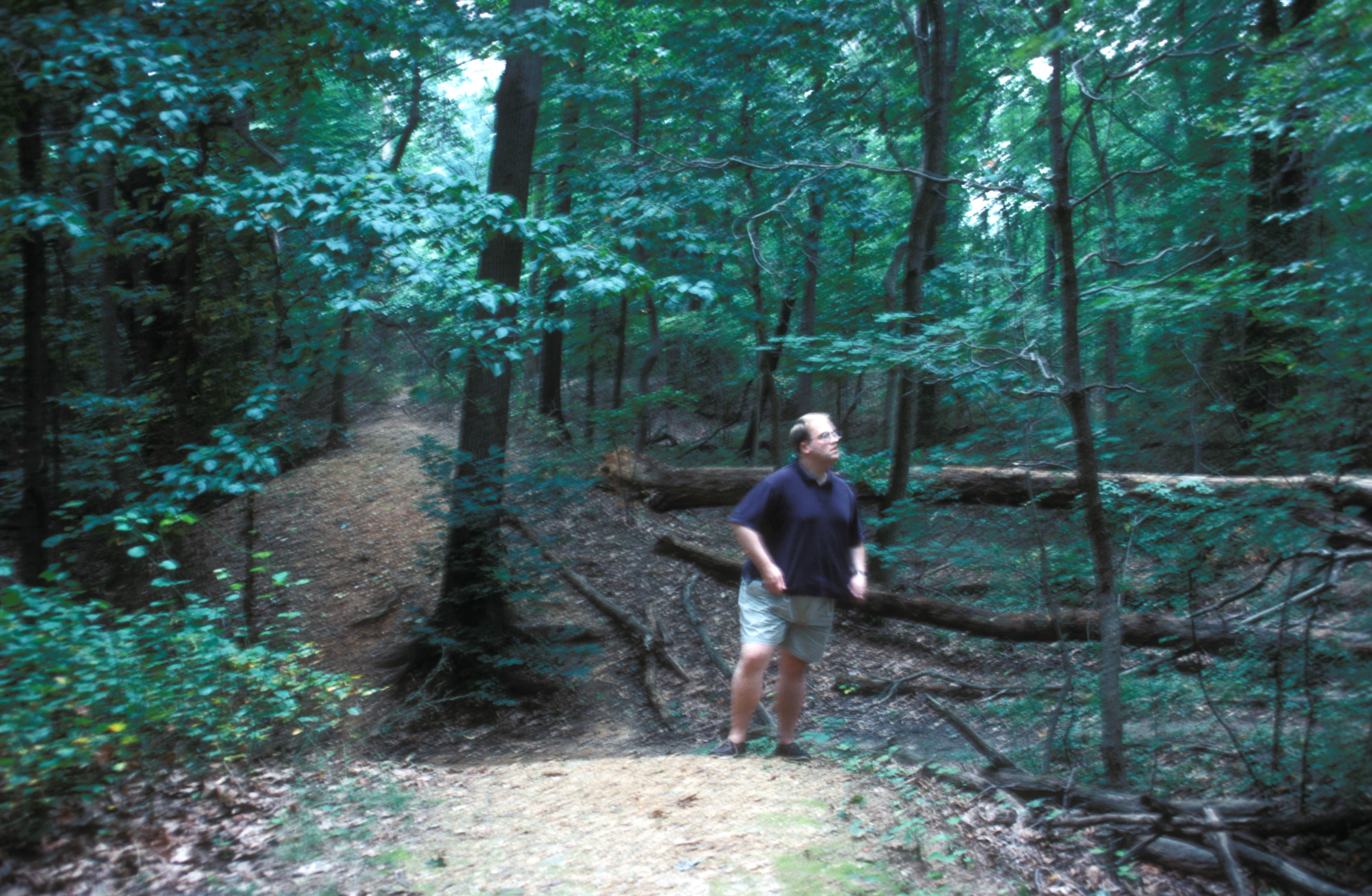 EARTHEN WORKS WHICH ARE ORIGINAL BUT OVERGROWN WITH TREES; BUILT TO PROTECT WASHINGTON DURING THE CIVIL WAR AND ACTIVE IN THE REPULSE OF EARLY’S ATTACK ON FORT STEVENS